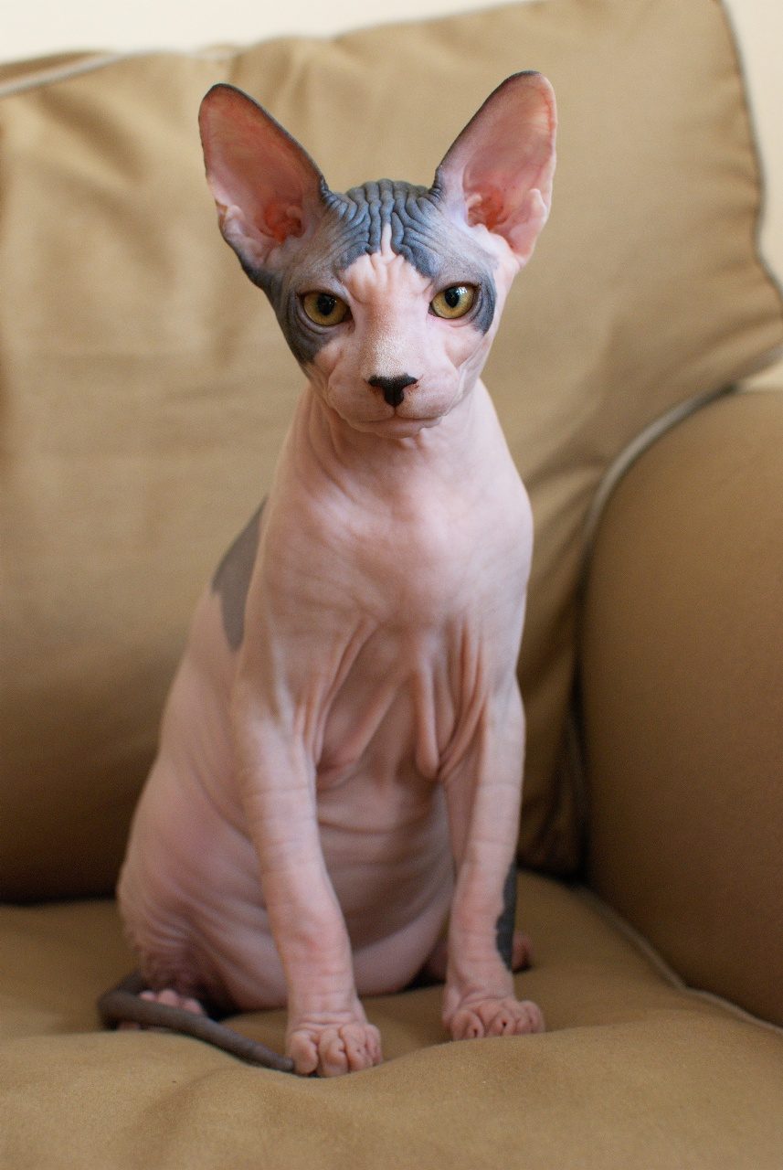 A beautiful sphynx cat